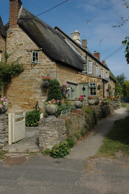 Cotswold stone cottages in Kingham, Oxfordshire